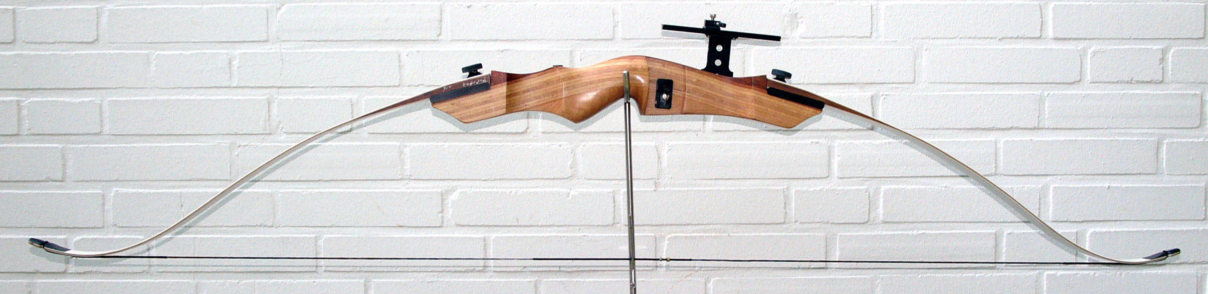 Recurve bow, Samick A to Z, 16 pound